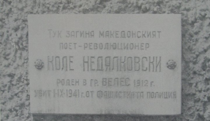 Memorial plaque of Kole Nedelkovski in Sofia on the place where he died. The plaque is removed after the Fall of communism. .